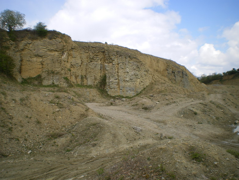 Farley Quarry - the central section